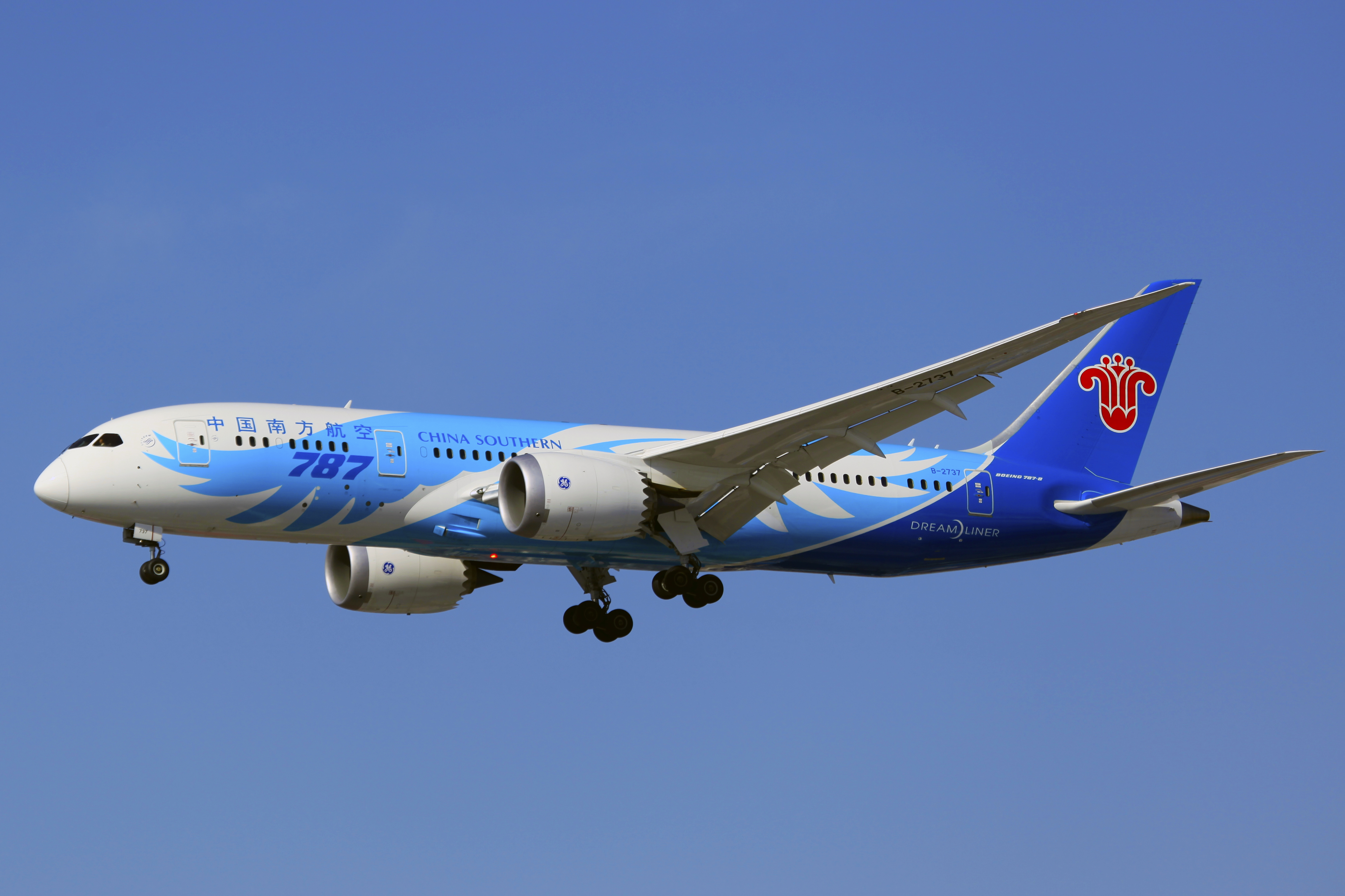 B-2737 | China Southern Airlines | Boeing 787-8 Dreamliner | Shanghai Hongqiao International Airport [SHA]